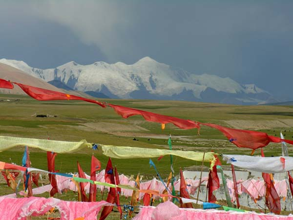 Distant view of Mt. Amnye Machen (Golog, Qinghai)